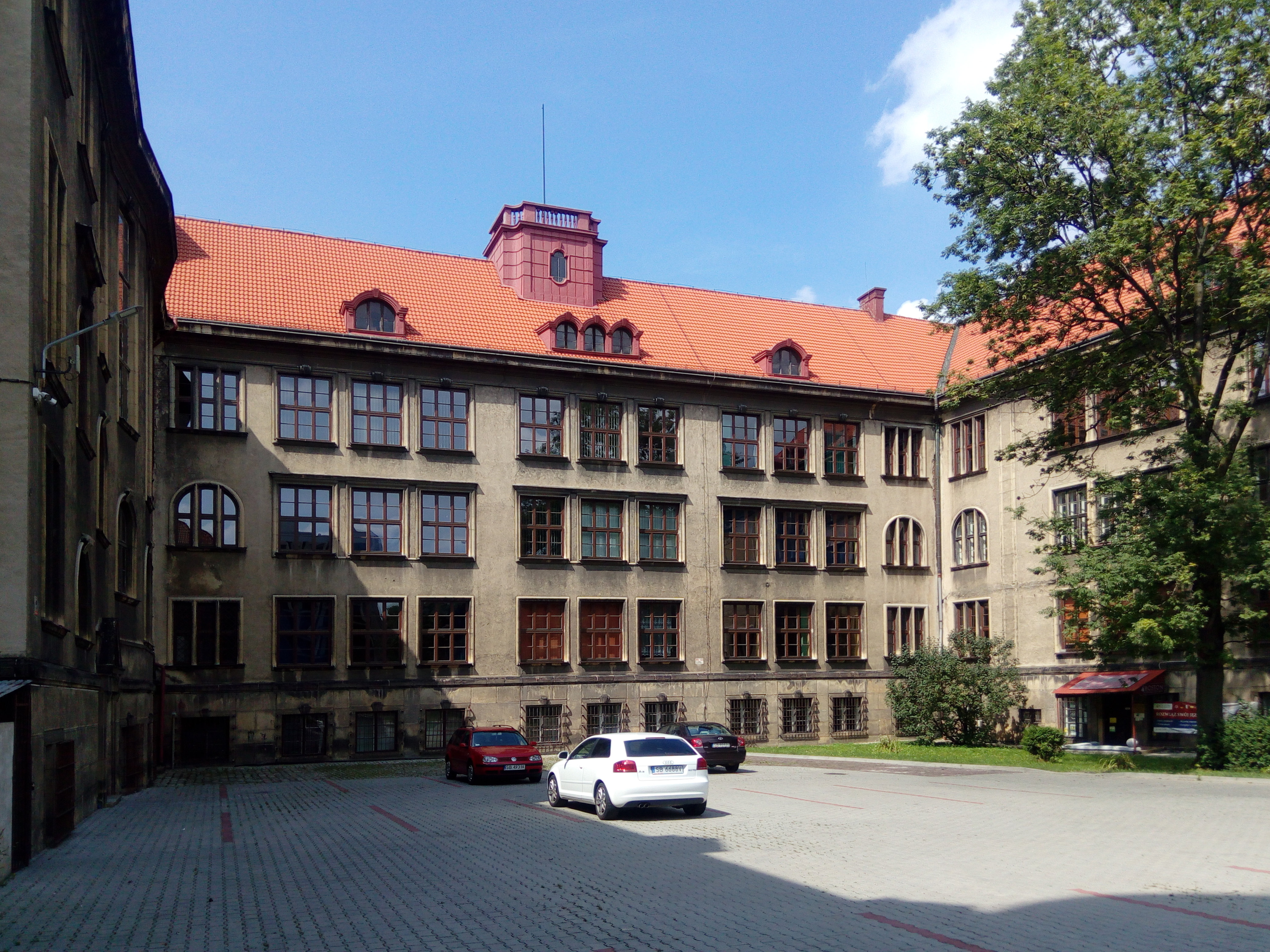 Copernicus Lyceum in Bielsko-Biała – courtyard and the north wing